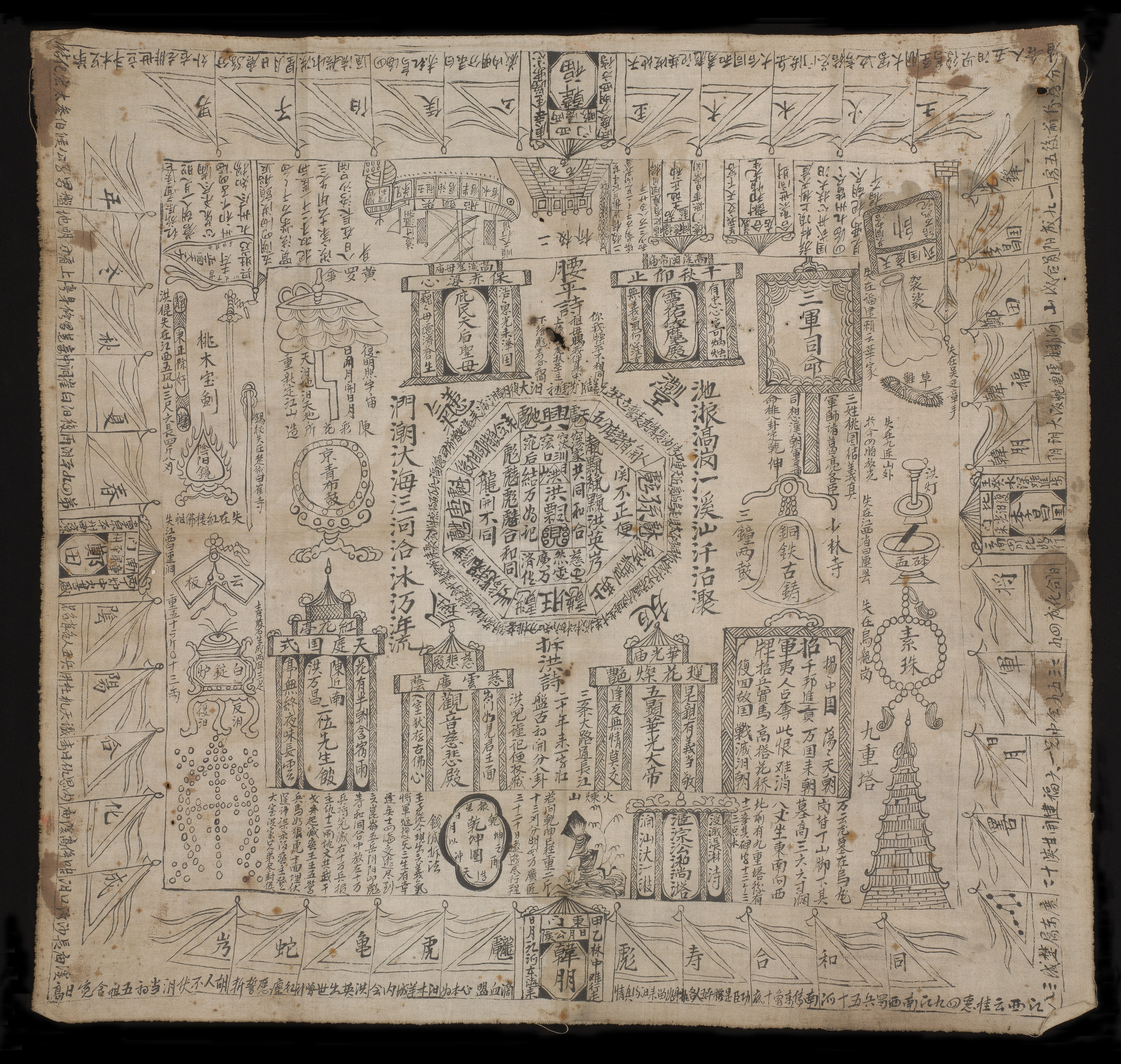 Cloth with illustrations and inscriptions Asian Collection